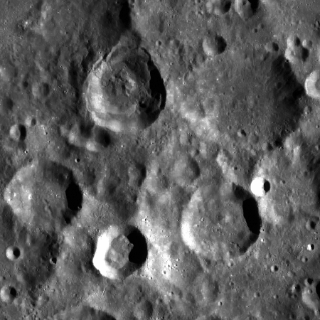 LROC Amici at upper right, upper left satellite T; below from left to right satellites R, P and M